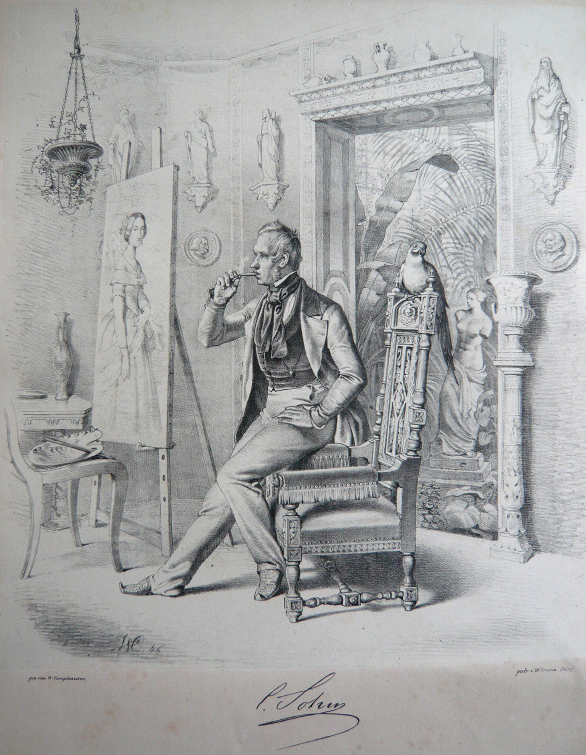 Lithograph portrait of Karl Ferdinand Sohn, German, signed C. Sohn. illustrated by Wilhelm Camphausen in 1845. in "Hidden Aspects of Düsseldorf Painters with Abbreviated Views of Their Latest Productions"